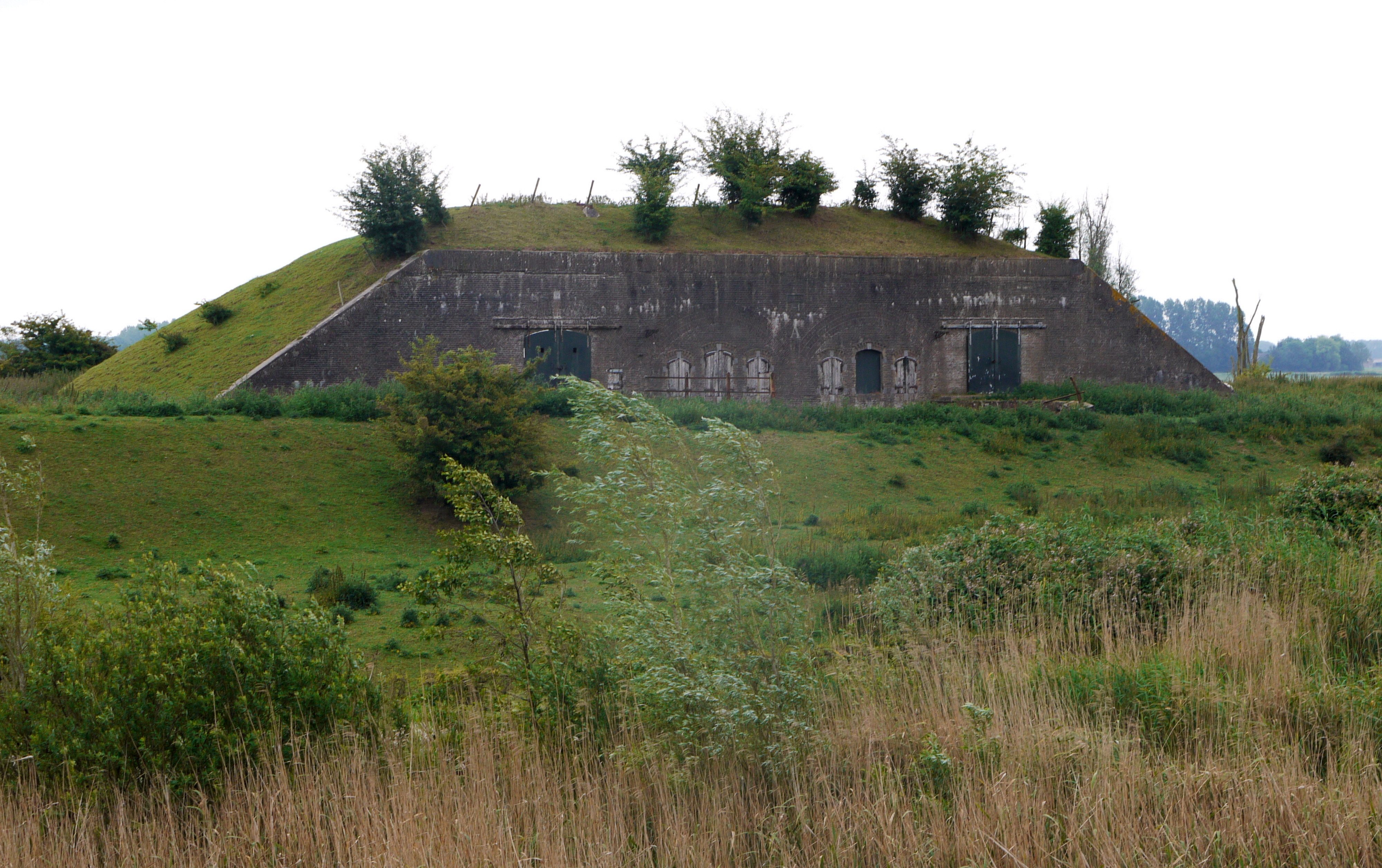 Batterij Brakel, a battery of the New Dutch Water Line near Brakel.